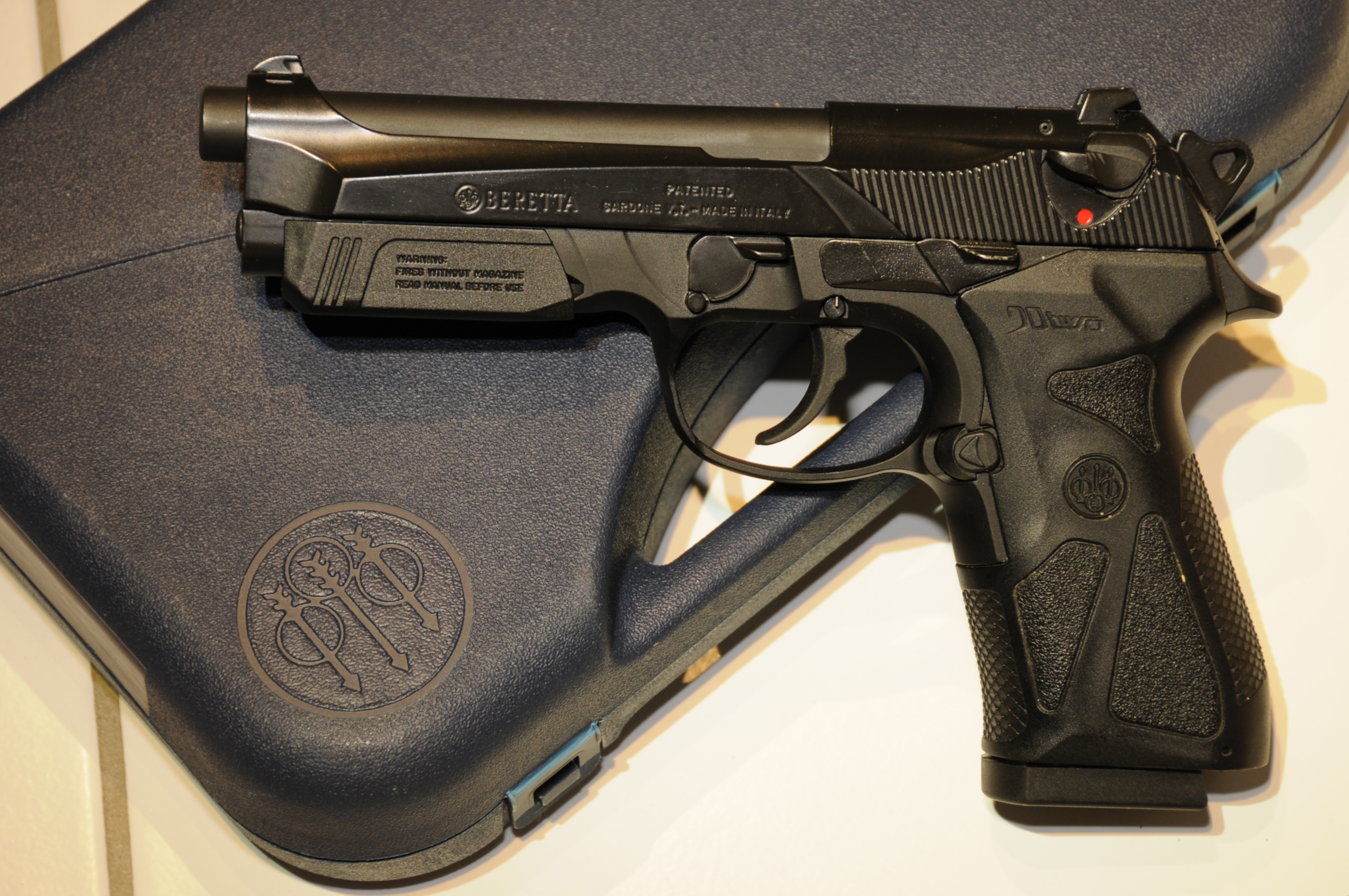 Beretta 90TWO with accessories removed, slide closed.